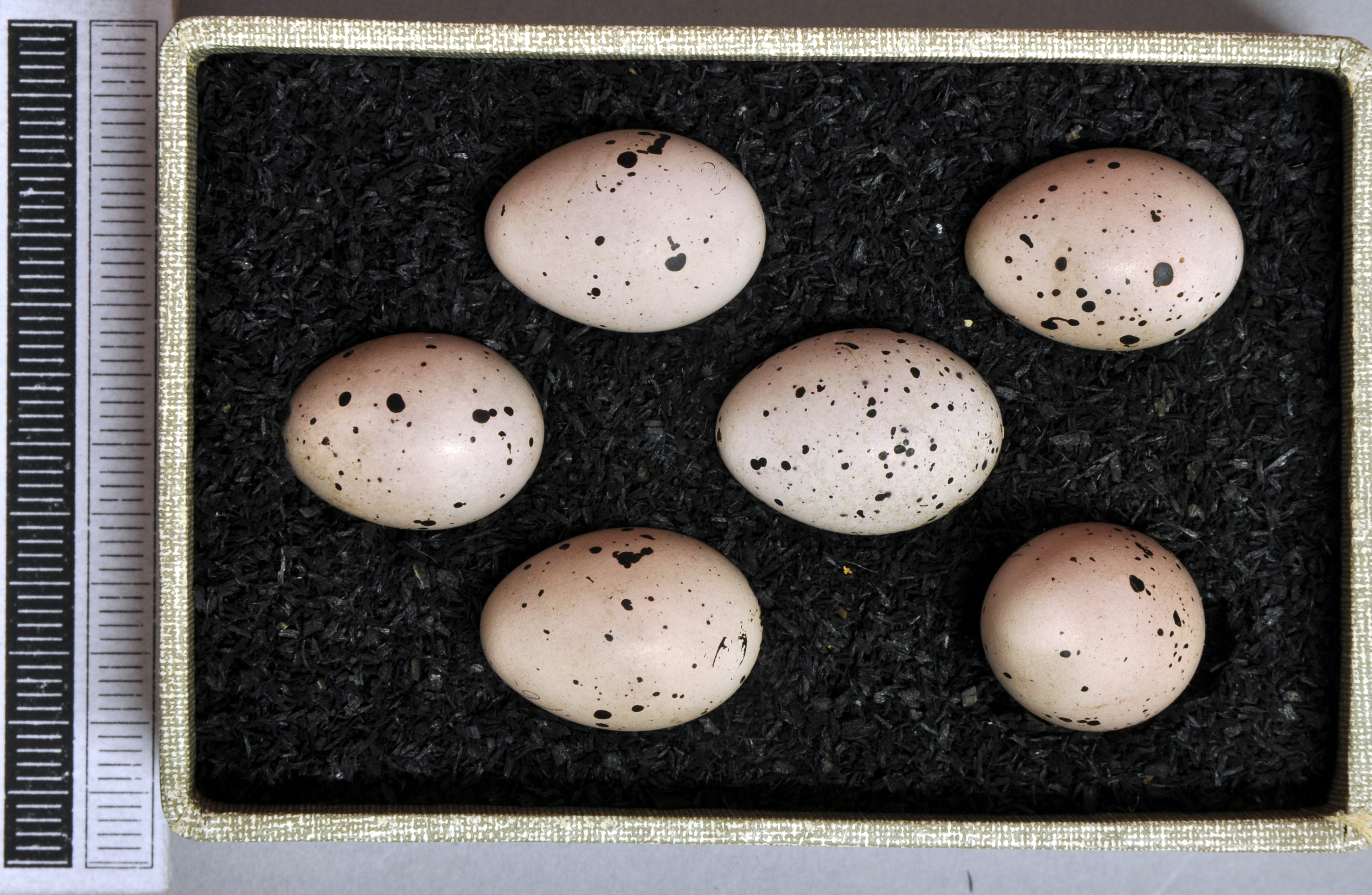 Olive-tree warbler Hippolais olivetorum , egg, Coll. Museum Wiesbaden